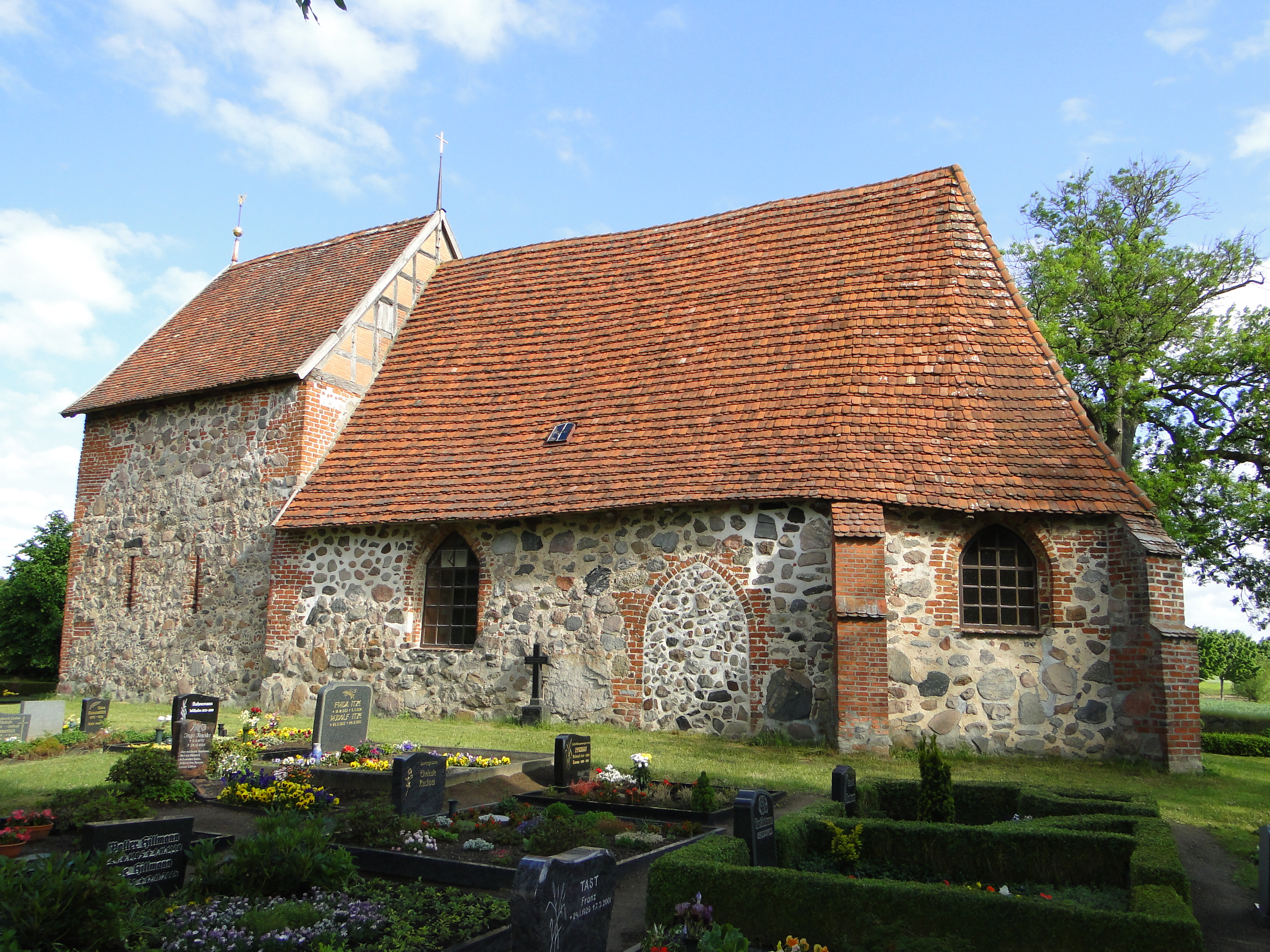 Church in Wessin, district Ludwigslust-Parchim, Mecklenburg-Vorpommern, Germany